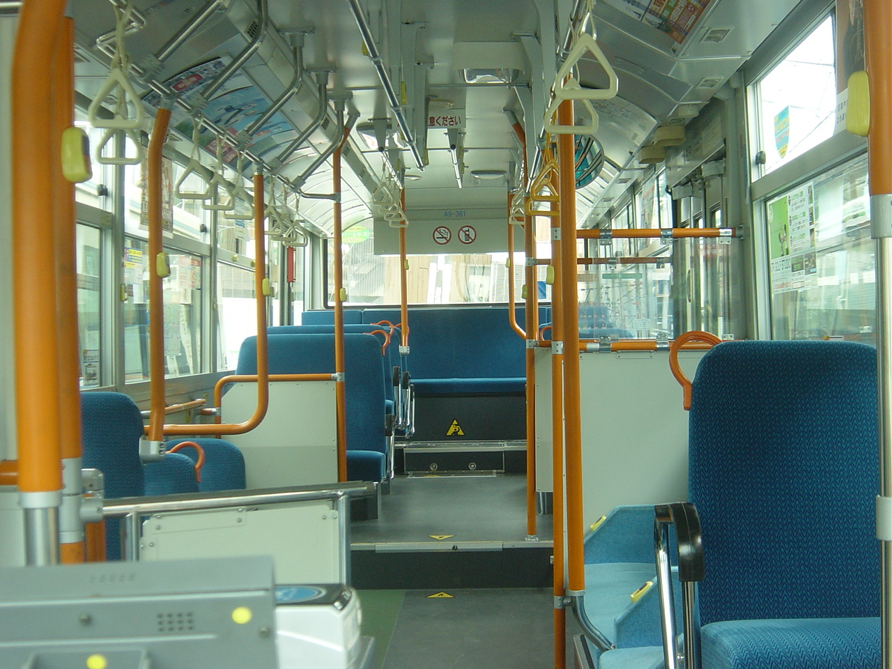 Via Google Translate: Seibu Kamisyakuzii member of A9-car office car 361. The rear two seats and has become one of the seating arrangement.